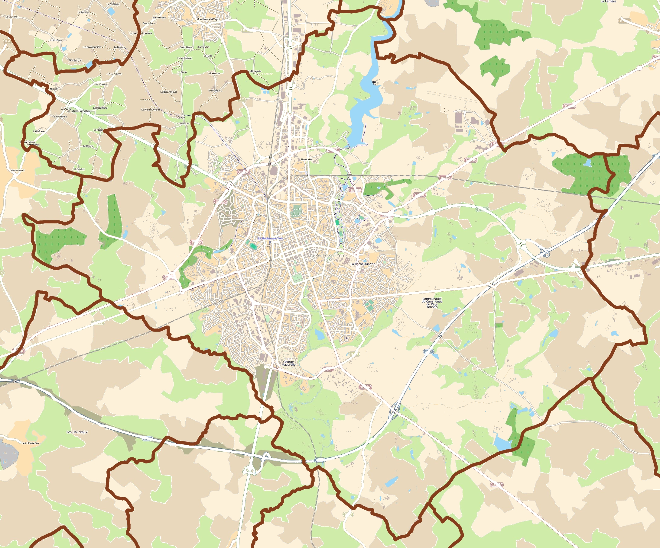 Map of map La Roche sur Yon, France